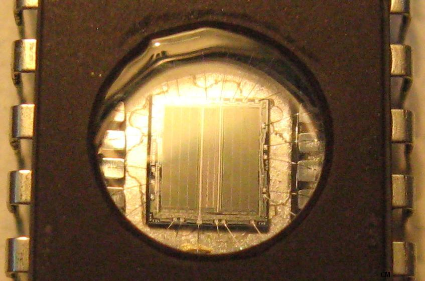 Window in a 2732 EPROM memory manufactured in 1984